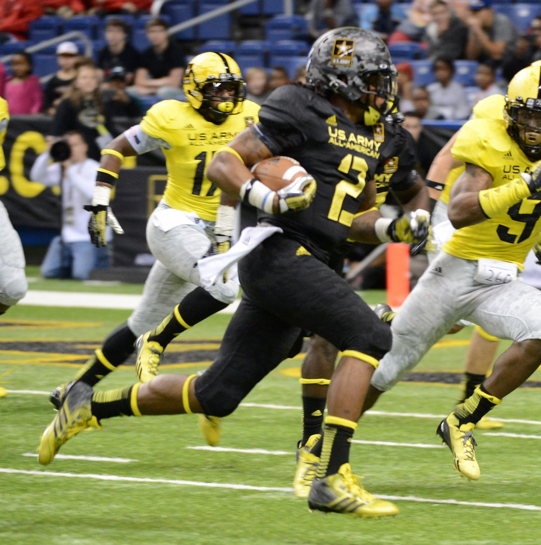 Alabama-bound Derrick Henry, the No. 1 career rushing leader in American high school football history for Yulee (Fla.) High School, dashes for a two-point conversion that capped a 15-8 victory for the East in the 2013 U.S. Army All-American Bowl, Jan. 5, at the Alamodome in San Antonio. Henry, who also had a 2-yard touchdown run, finished with a game-high 53 yards on 11 carries. (U.S. Army photo by Tim Hipps, IMCOM Public Affairs)